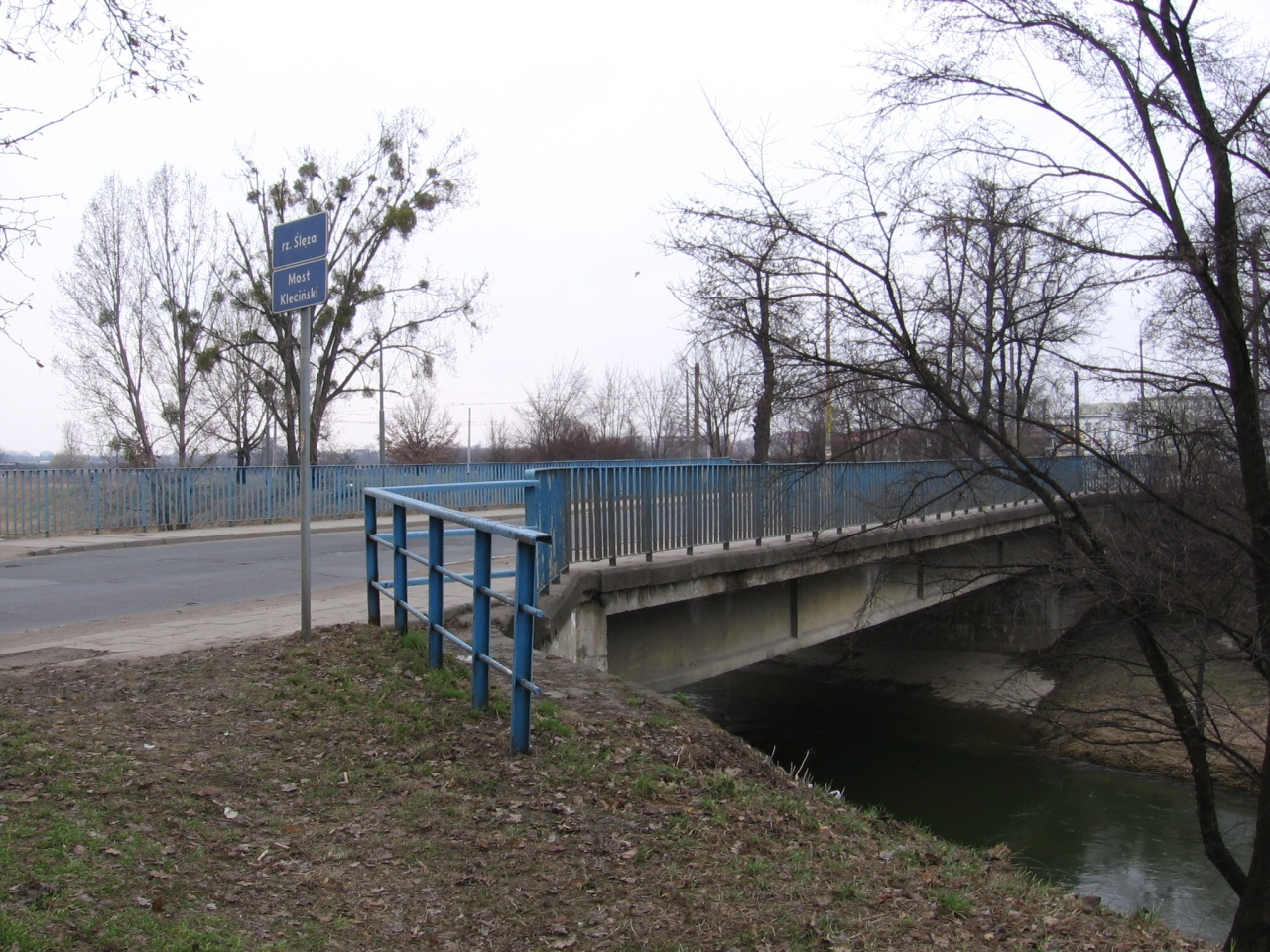 Wrocław, Poland Kleciński Bridge over Ślęza River (tributary of Odra River)